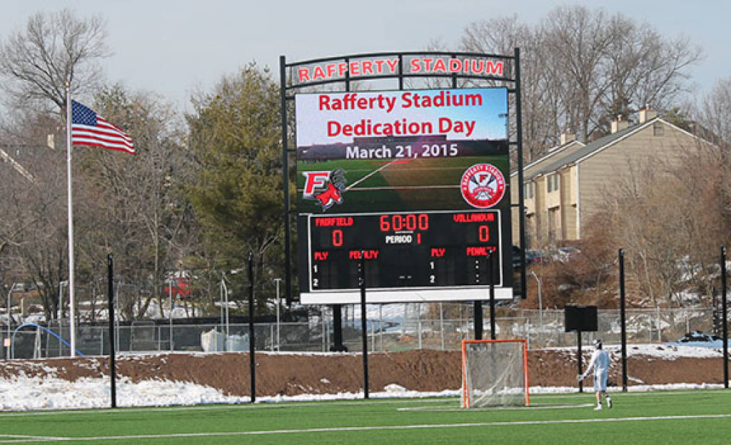 Rafferty Stadium scoreboard at Fairfield University in Fairfield, Connecticut, USA